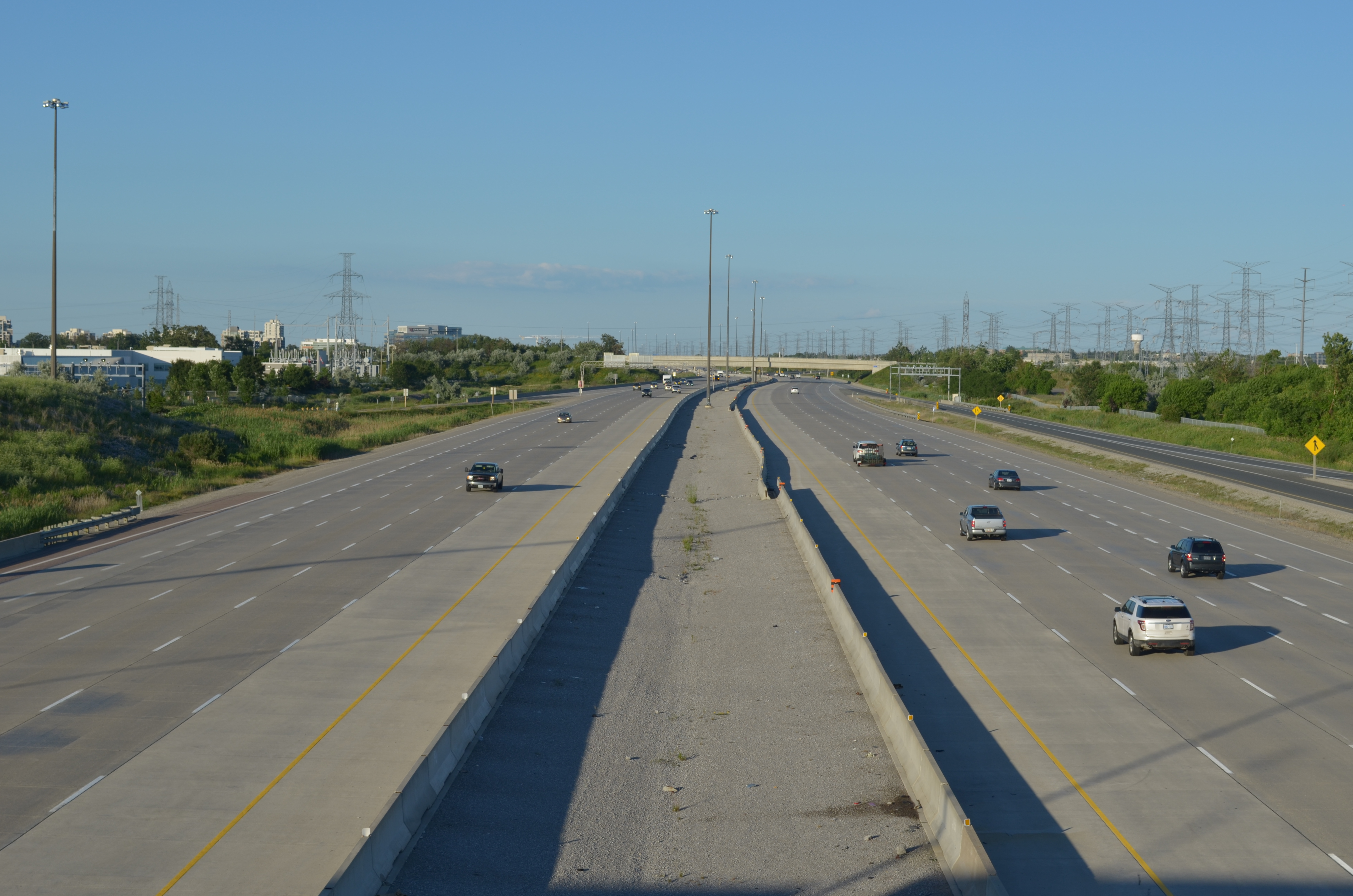 Highway407 and Woodbine